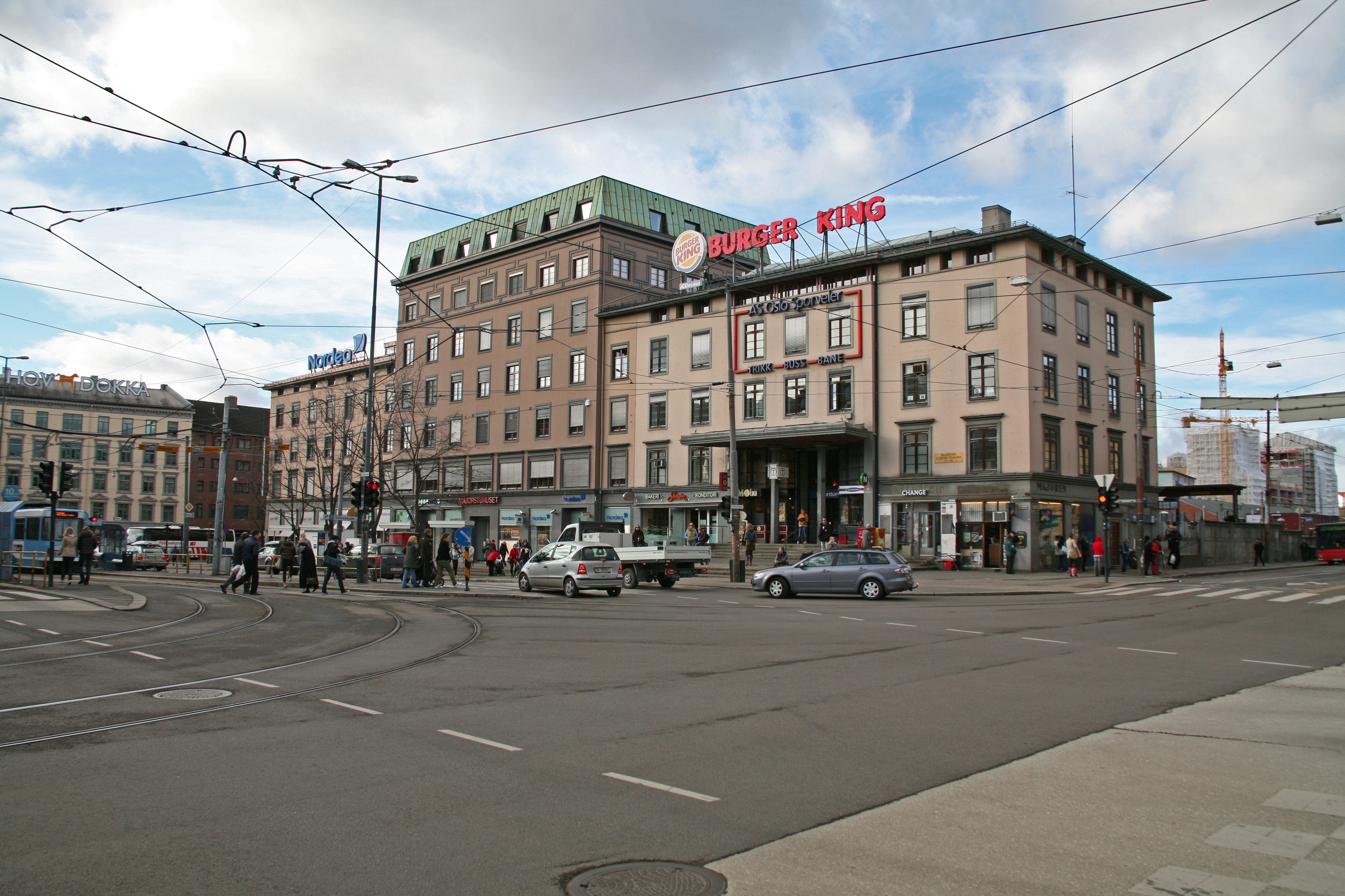 Picture of Majorstua (Oslo - Norway)